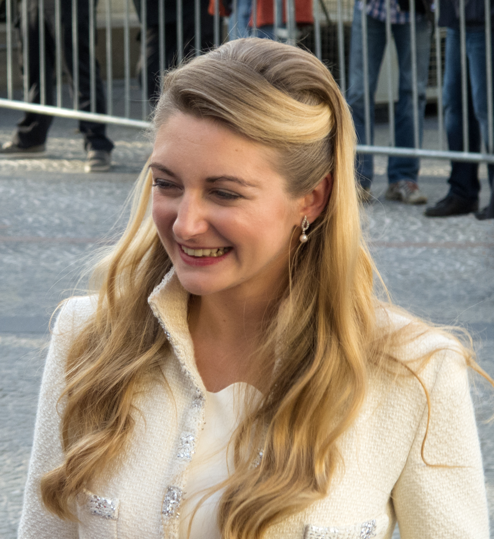 Stéphanie, Hereditary Grand Duchess of Luxembourg